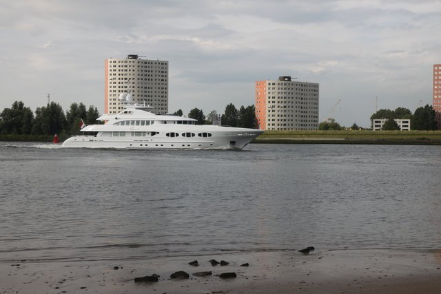 Large yacht in the meuse near Hoogvliet